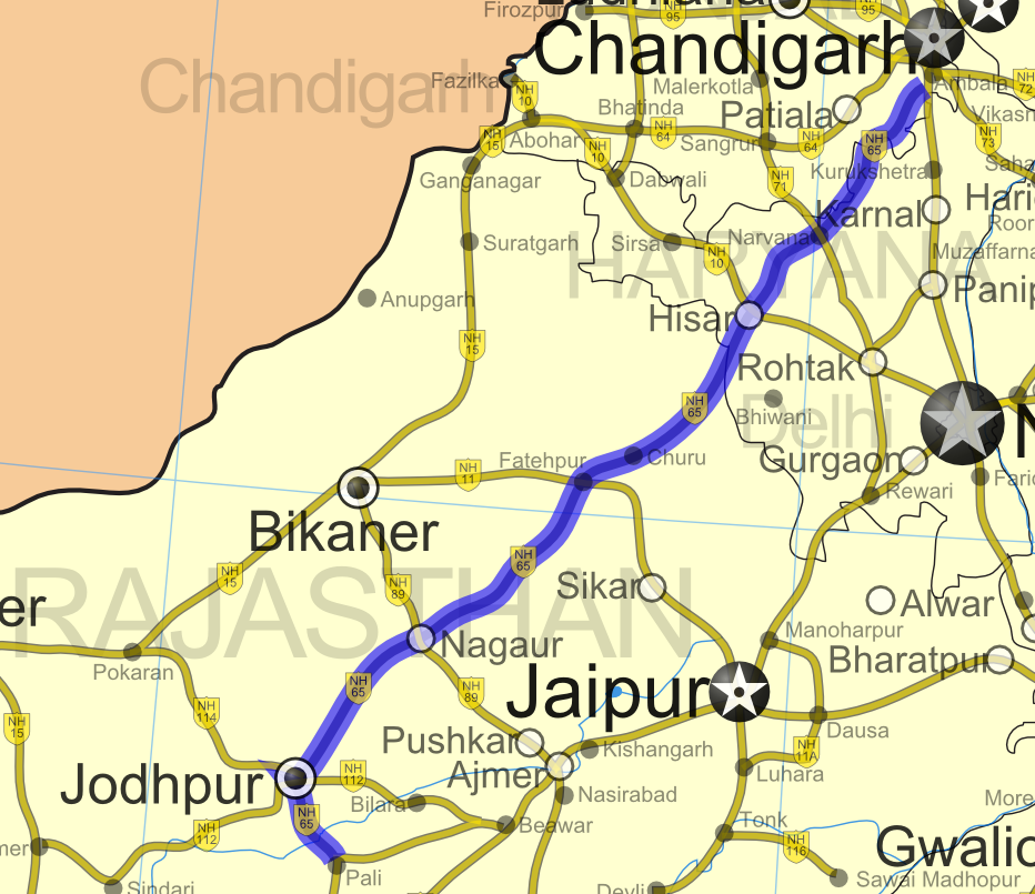 National Highway 65 in India